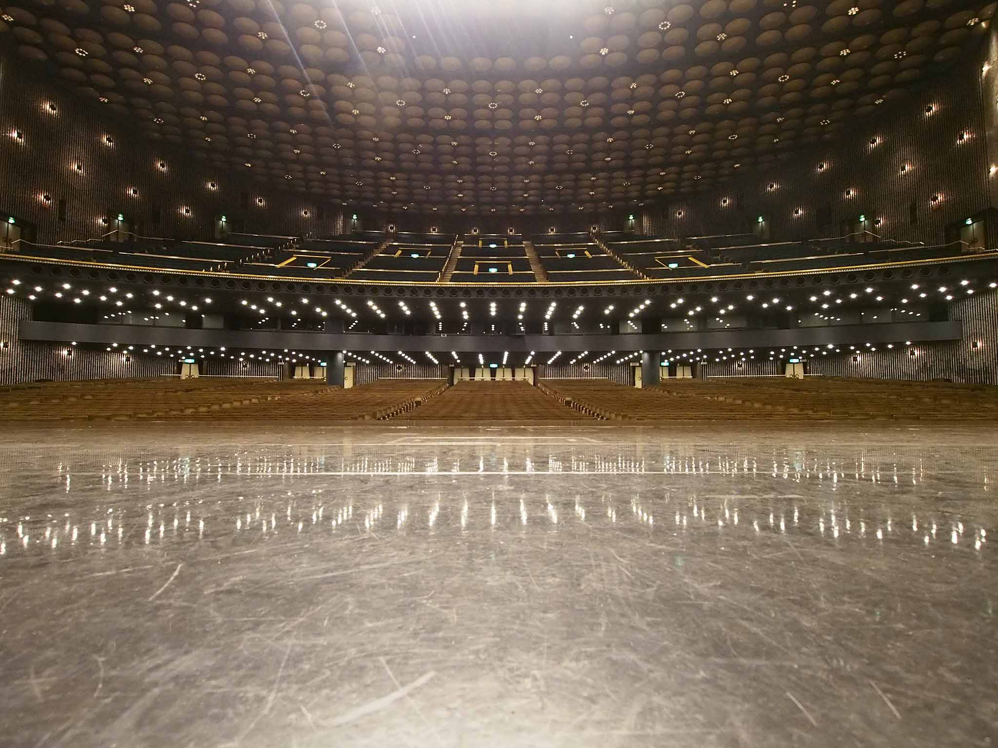 Arena of Fumon Hall, view from stage.